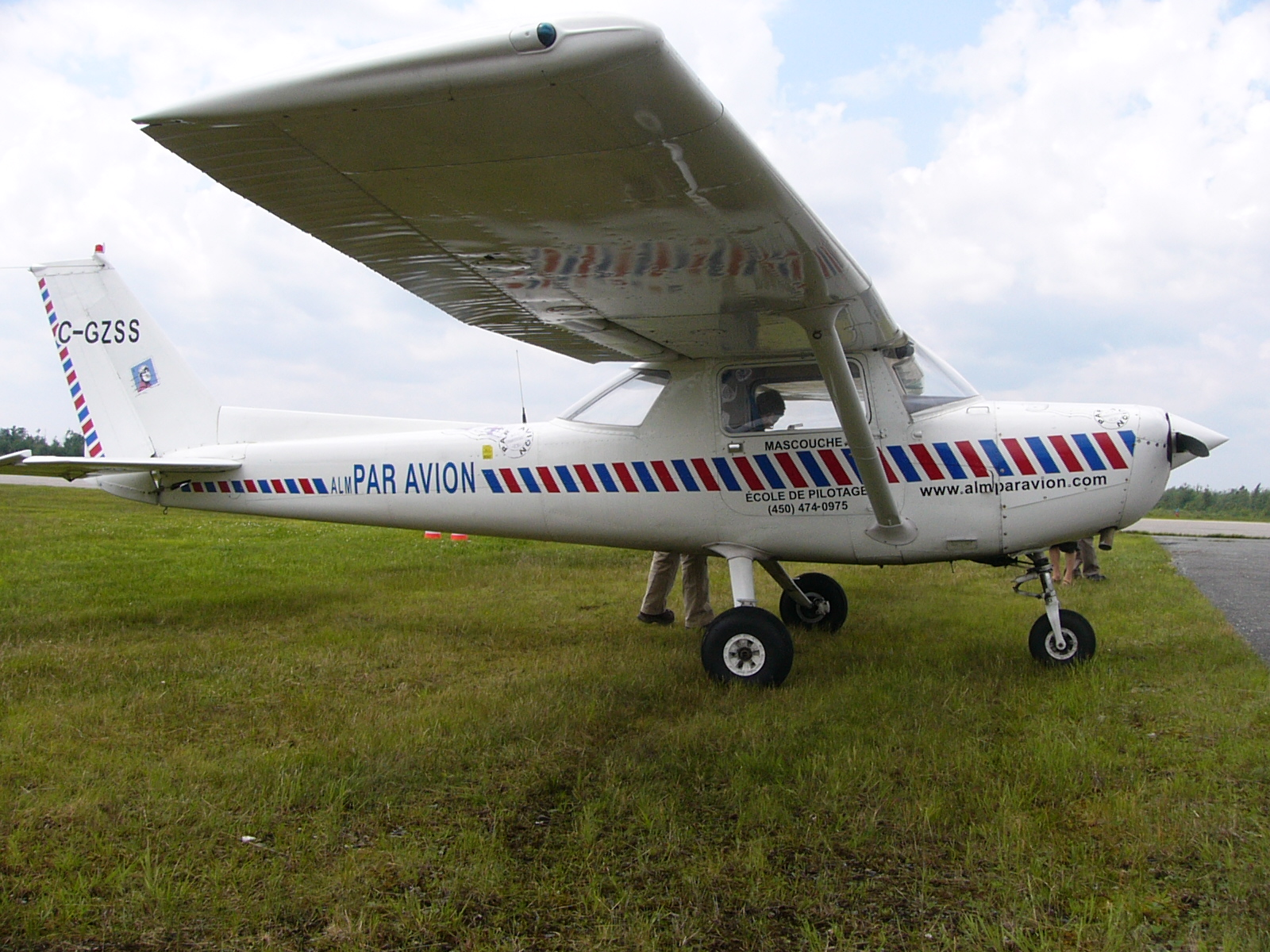 1978 model-year Cessna 152, manufactured in 1977, registered C-GZSS, at Les Faucheurs de Marguerites at the Sherbrooke Quebec, Canada, airport on 2 July 2006